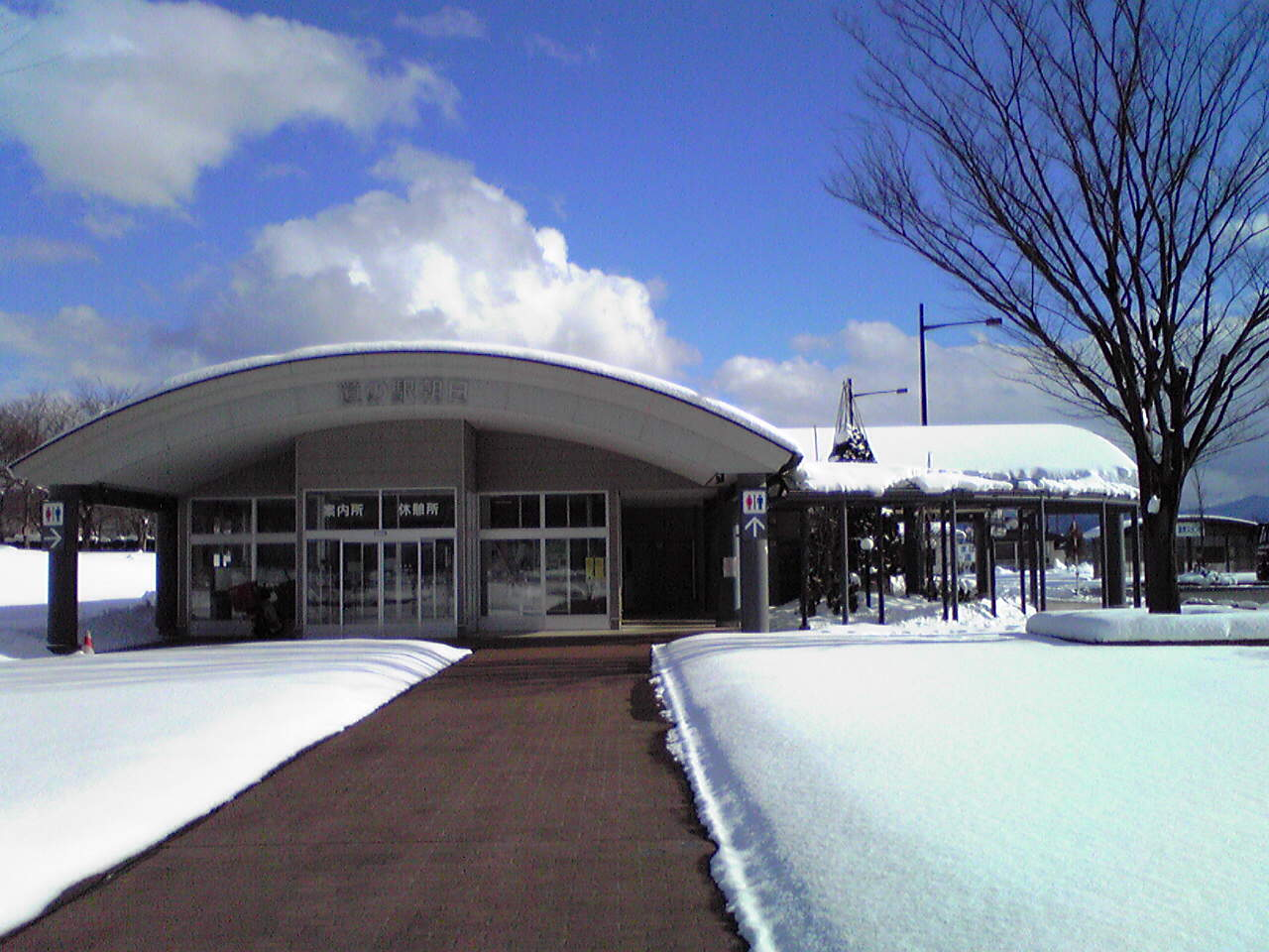 Information centre at Michinoeki Asahi in Murakami City, Niigata Prefecture, Japan